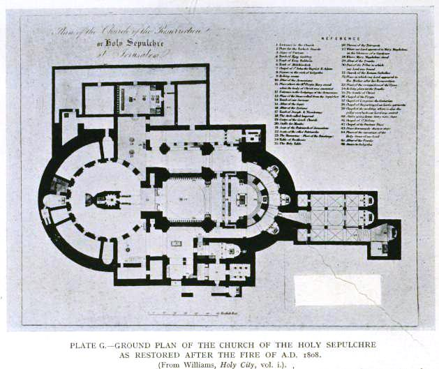 Floorplan of the Church of the Holy Sepulchre